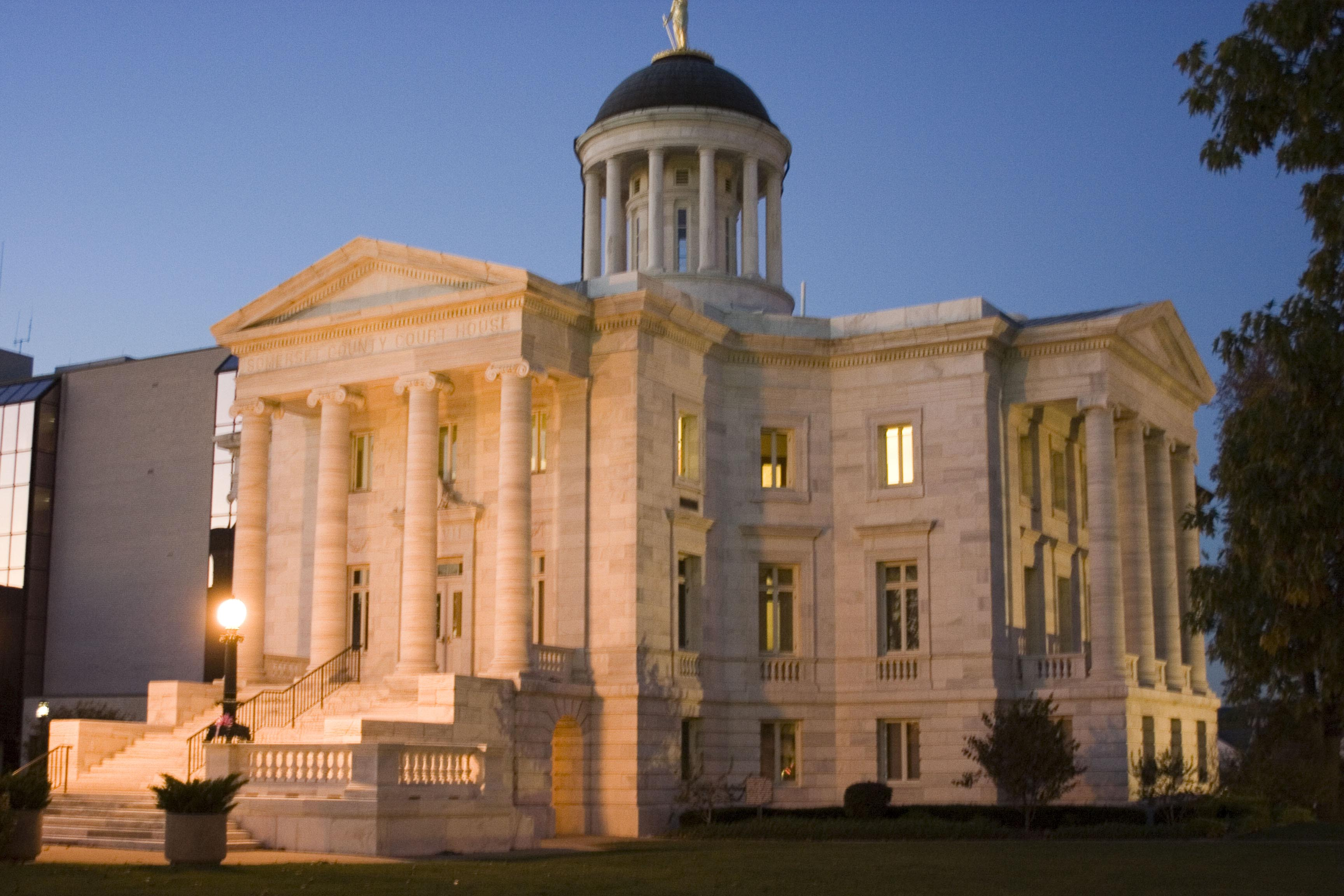 Picture of the Somerset County Courthouse